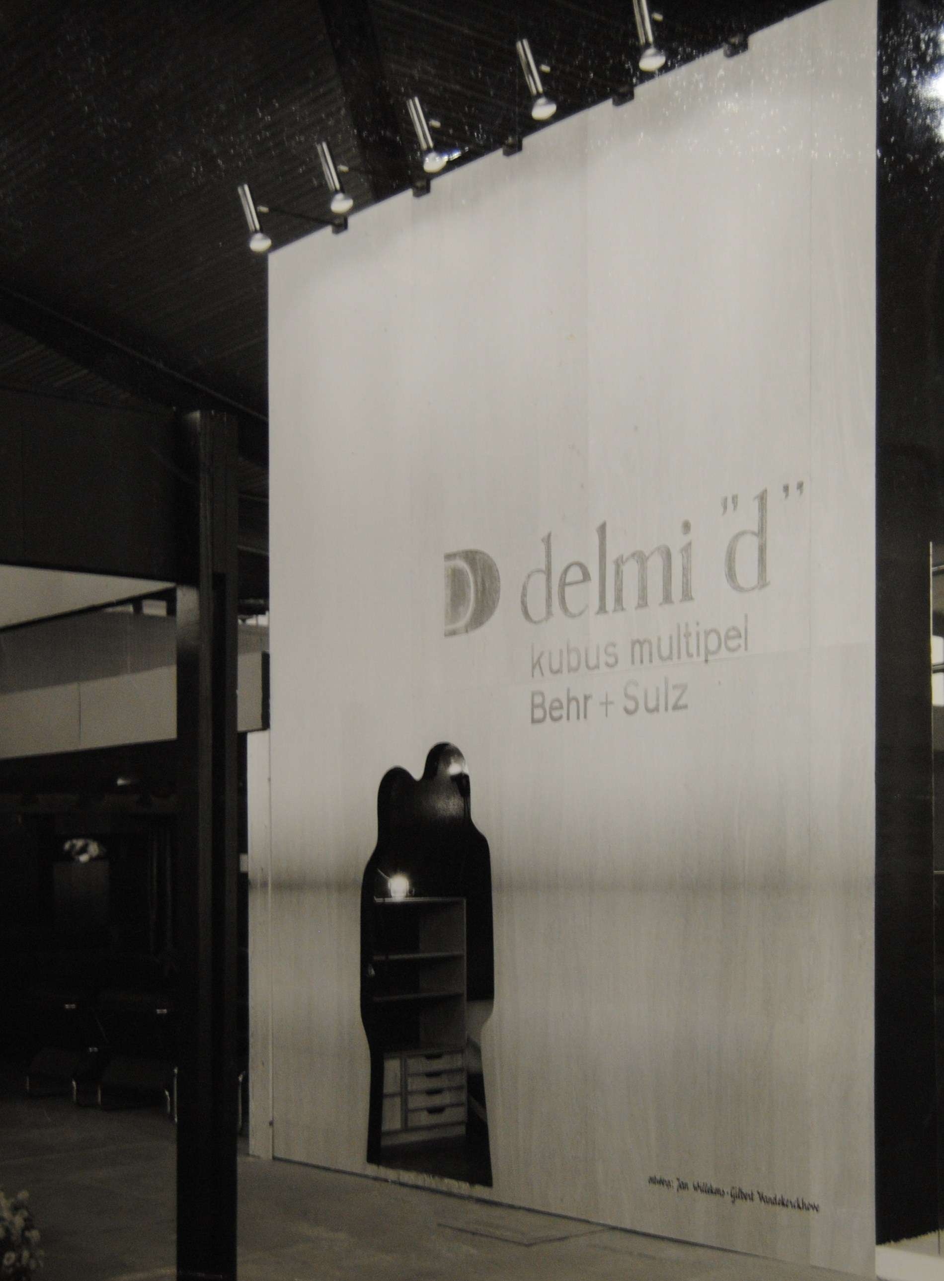 Picture taken on Interieur 1972 te Kortrijk Delmi D Vandekerkhove Gilbert Willekens Jan